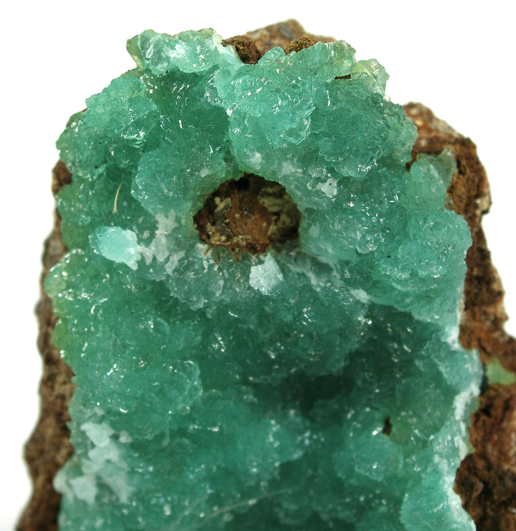 Austinite Locality: Ojuela Mine, Mapimí, Municipio de Mapimí, Durango, Mexico (Locality at ) Size: miniature, 5.2 x 4.4 x 2.0 cm Austinite (Cuprian) A smaller specimen, than others here, but with slightly more intense color , perhaps 10% more neon green. It has some small spots of damage, but displays really well overall. A beautiful piece from the old stash of dealer/collectors Consie and Dalton Prince (Houston, TX), was found a few flats of the most intensely-colored, sparkling austinite any of us had seen from Mexico. This material apparently came out in the 1970s and was still wrapped in the old newspapers, from when they stashed it away. I was stunned when I saw this - it has to be seen in person to get the true effect of the slight translucency combined with neon color and sugary lustre. It is not the biggest austinite crystals - these are druses layered in thick carpets - but it is surely the prettiest find I know of.